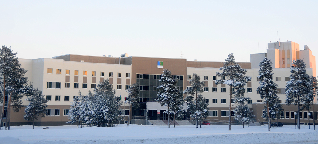 Kogalym City Administration Building(Surgut District, Khanty-Mansi Autonomous Okrug, Russia)